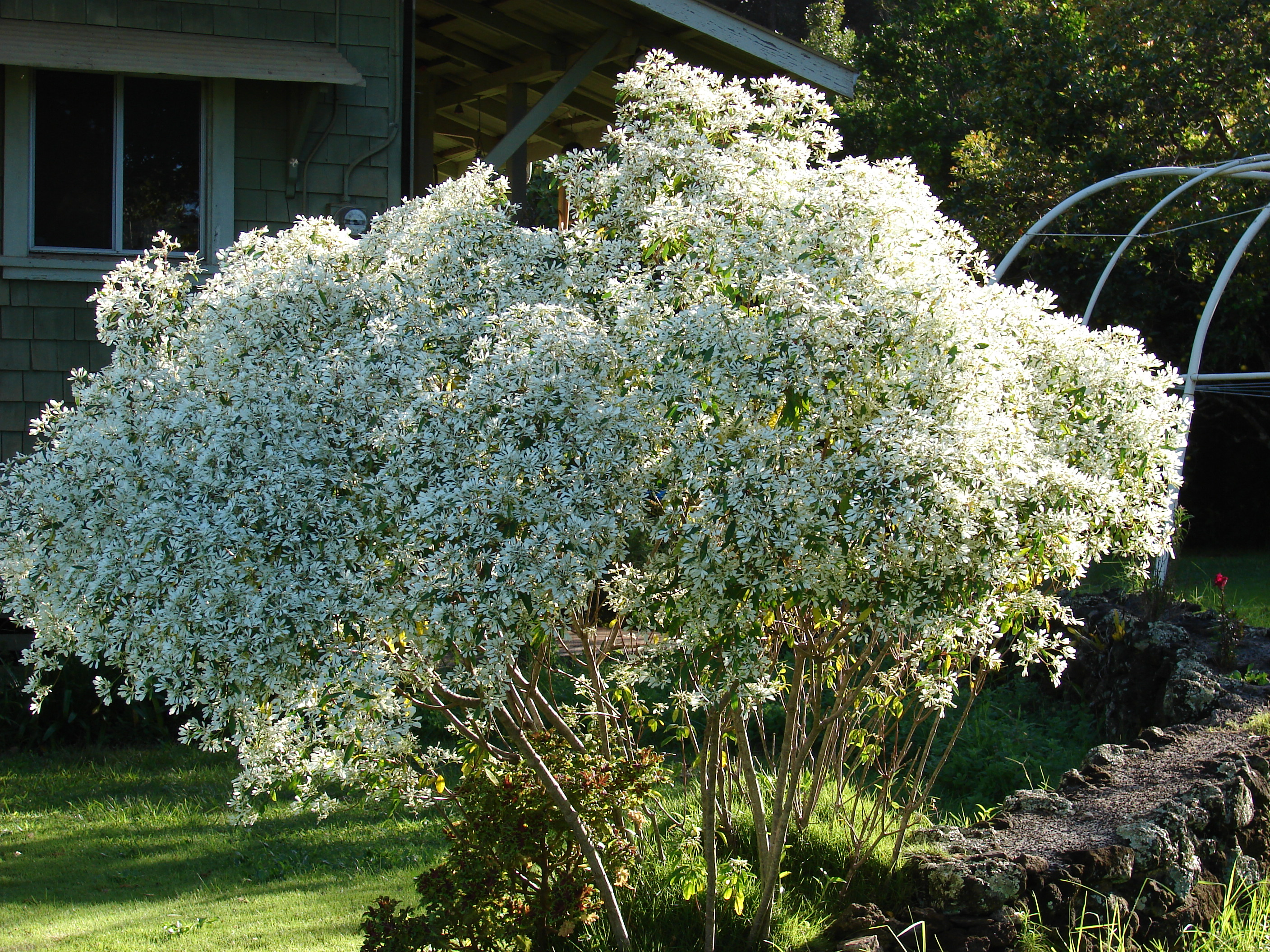 Euphorbia leucocephala (flowering habit). Location: Maui, MISC HQ Piiholo